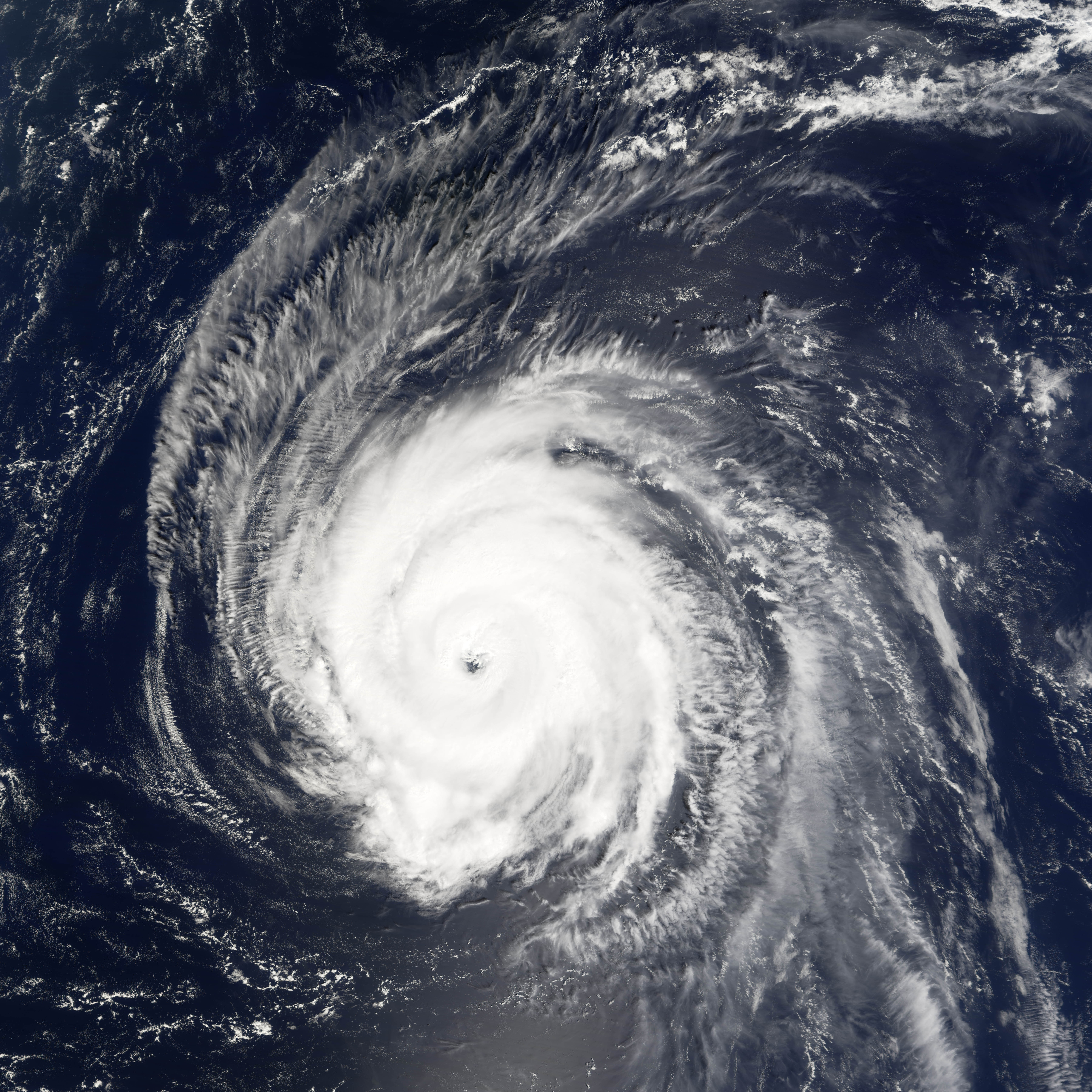 The 2006 Atlantic Hurricane season had a slow start, with very few named storms in the first months of the season. But in early September, the previously hurricane-less season threw out four hurricanes in a row: Ernesto, Florence, Gordon, and Helene. A persistent ridgeline of high pressure over the U.S. east coast steered the last three of these four storms away into the North Atlantic. Hurricanes Gordon and Helene have both reached Category Three status. As of September 19, Helene was not expected to make landfall on any of the Atlantic islands, though it may pass close enough to Bermuda to bring strong storm surges. This photo-like image was acquired by the Moderate Resolution Imaging Spectroradiometer (MODIS) on NASA’s Terra satellite on September 19, 2006, at 10:15 a.m. local time (14:15 UTC). Helene is a well-defined large sprawling storm system with long spirals arms, a tightly wound central portion, distinct eyewall, and a cloud-filled eye. These are all telltale signs of a powerful hurricane. According to the University of Hawaii’s Tropical Storm Information Center, Helene had sustained winds reaching as high as 185 kilometers per hour (115 miles per hour), making it a powerful Category Three storm. As of September 19, Helene was predicted to building power slightly more as it continued to travel over warm seas and with no significant landfalls to disrupt the hurricane’s continued strength.